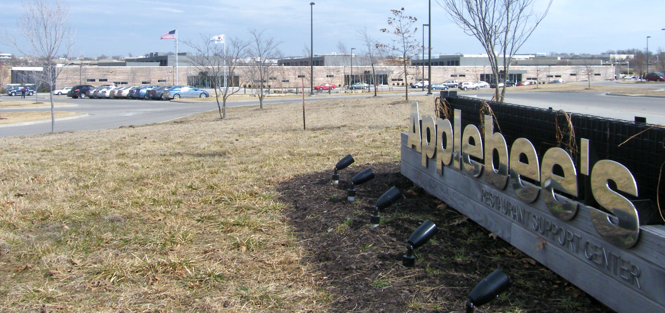 Applebees headquarters in Lenexa, Kansas (officially called "Restaurant Support Center"